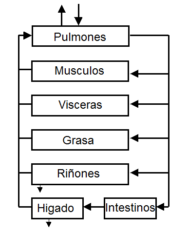 Symbolic representation of a 7-compartment physiologically based pharmacokinetic model.